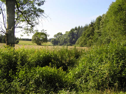 Landscape near Szatta